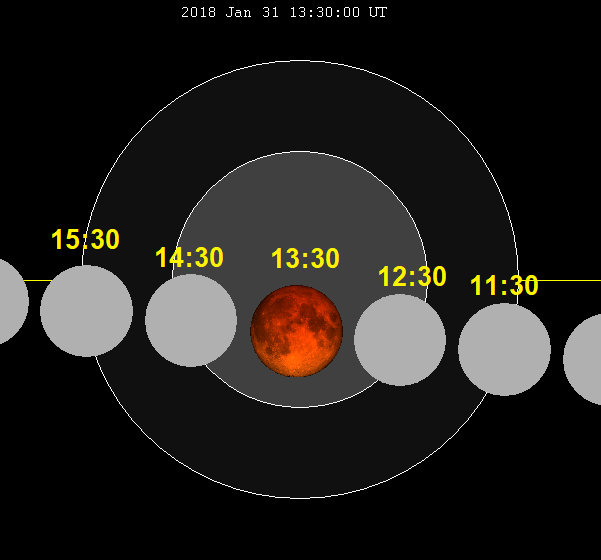 January 2018 lunar eclipse chart of moon's path through the earth's shadow. thumb